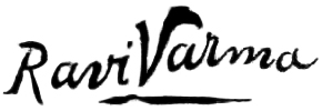 Signature of Raja Ravi Varma on his artwork}.